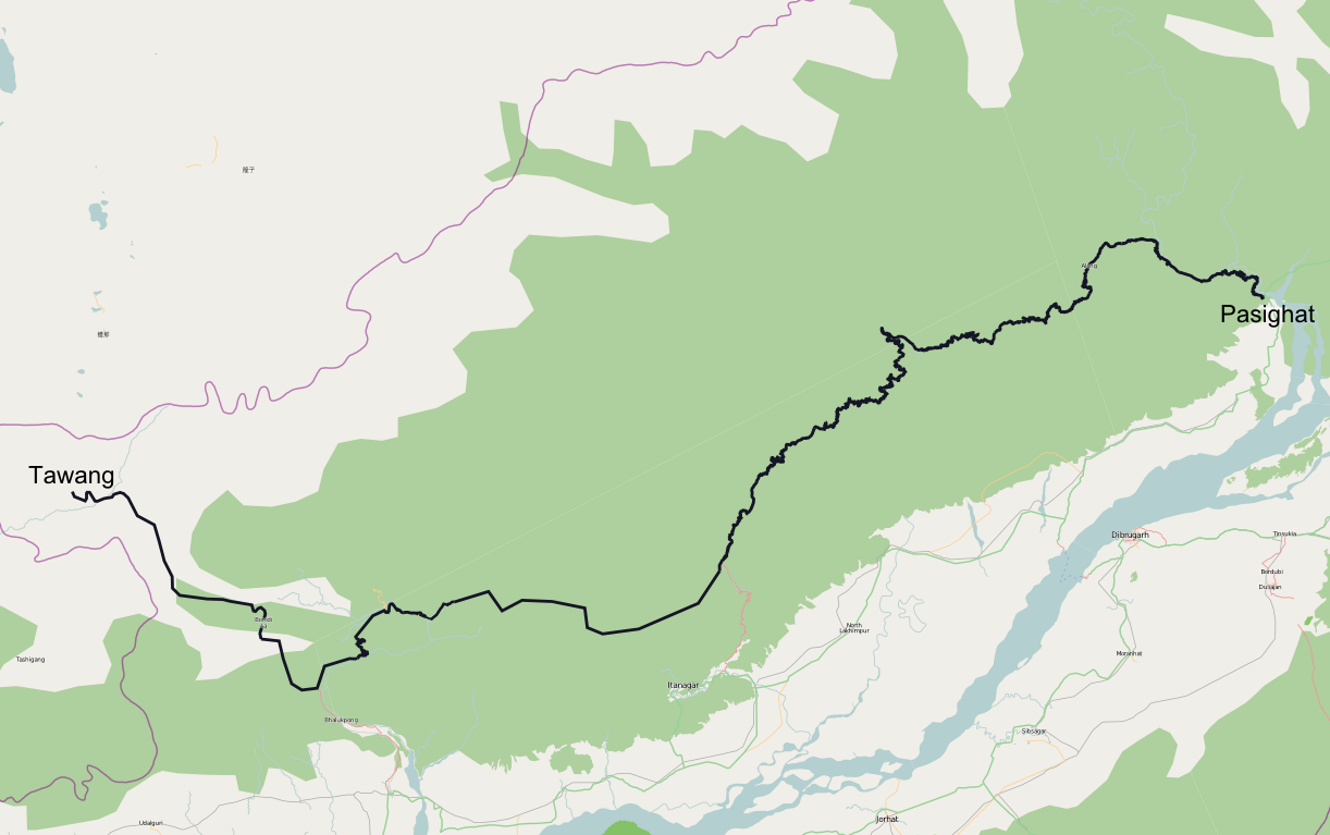 National Highway 229 in India. Map created by using Inkscape. Blank map downloaded from Open Street Maps with license CC-BY-SA.